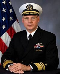 Vice Admiral Kevin M. McCoy